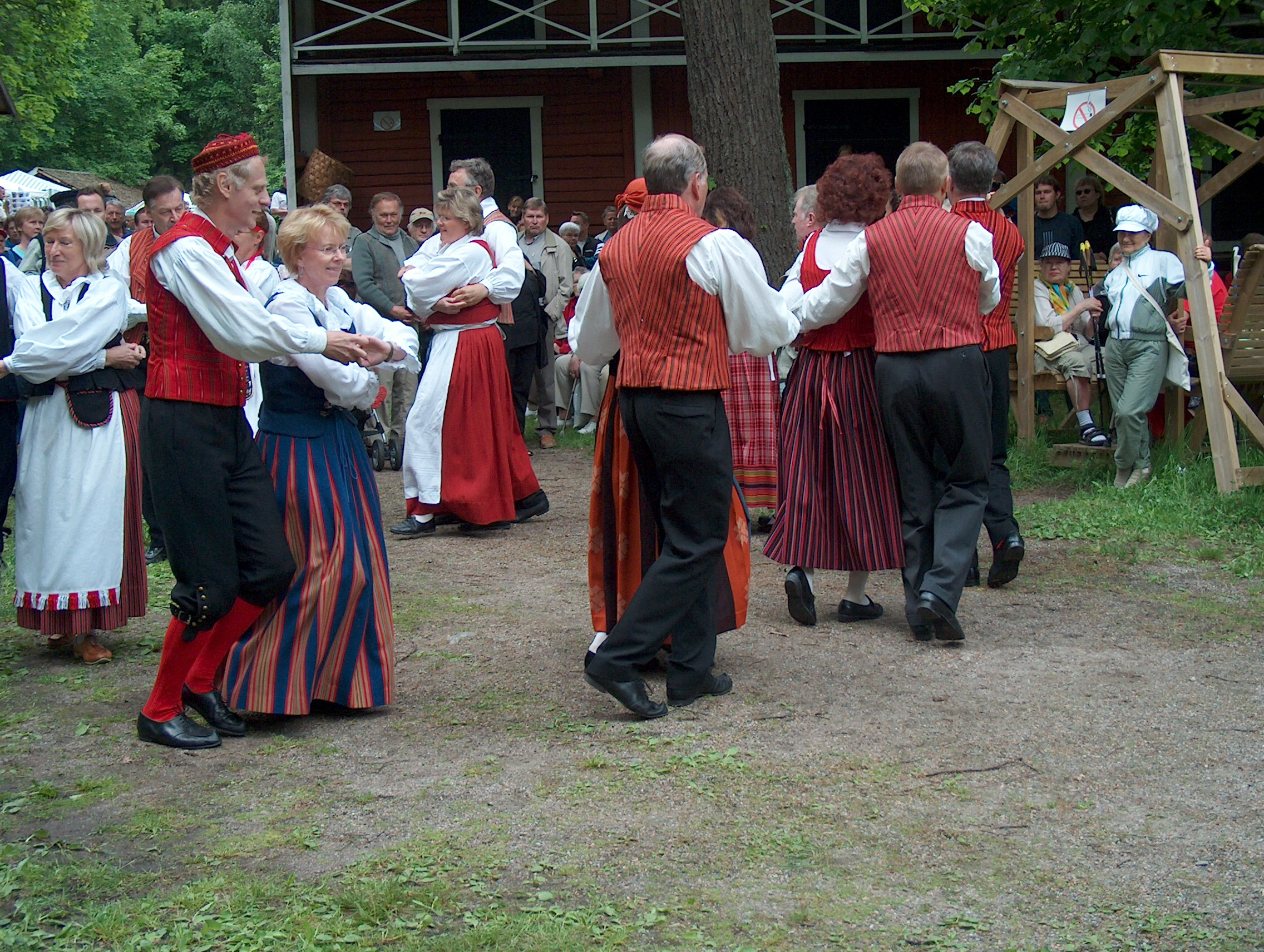 Folk dancing on Kerava Day 2005